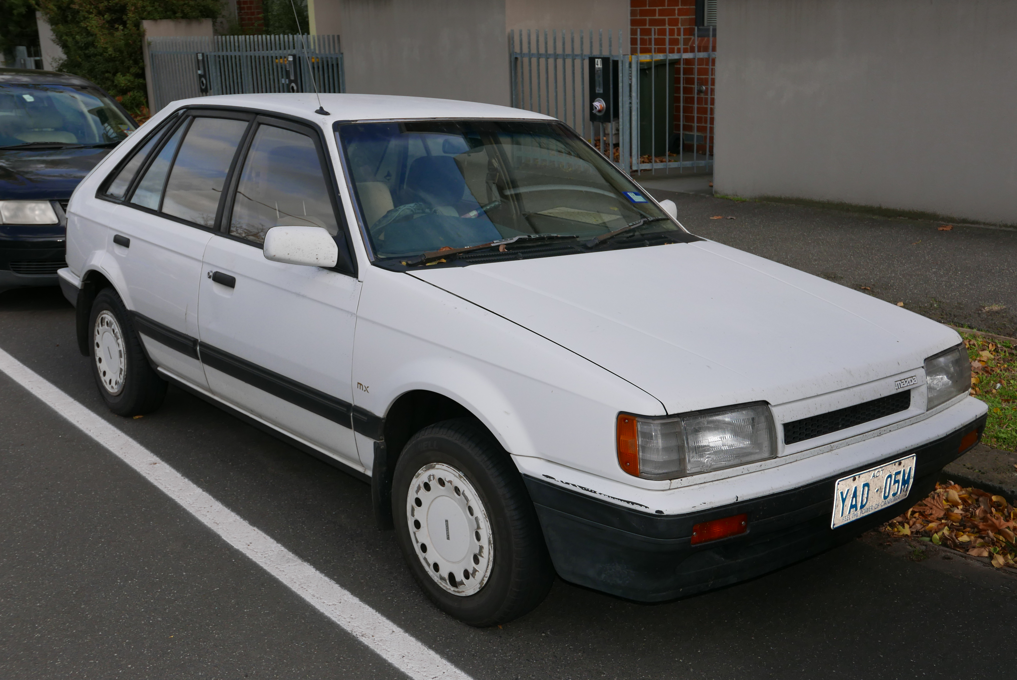 1986 Mazda 323 (BF) MX 5-door hatchback. Photographed in Fitzroy North, Victoria, Australia. Vehicle registration enquiry results Jurisdiction Australian Capital Territory Registration YAD05M Year of manufacture 1986-11